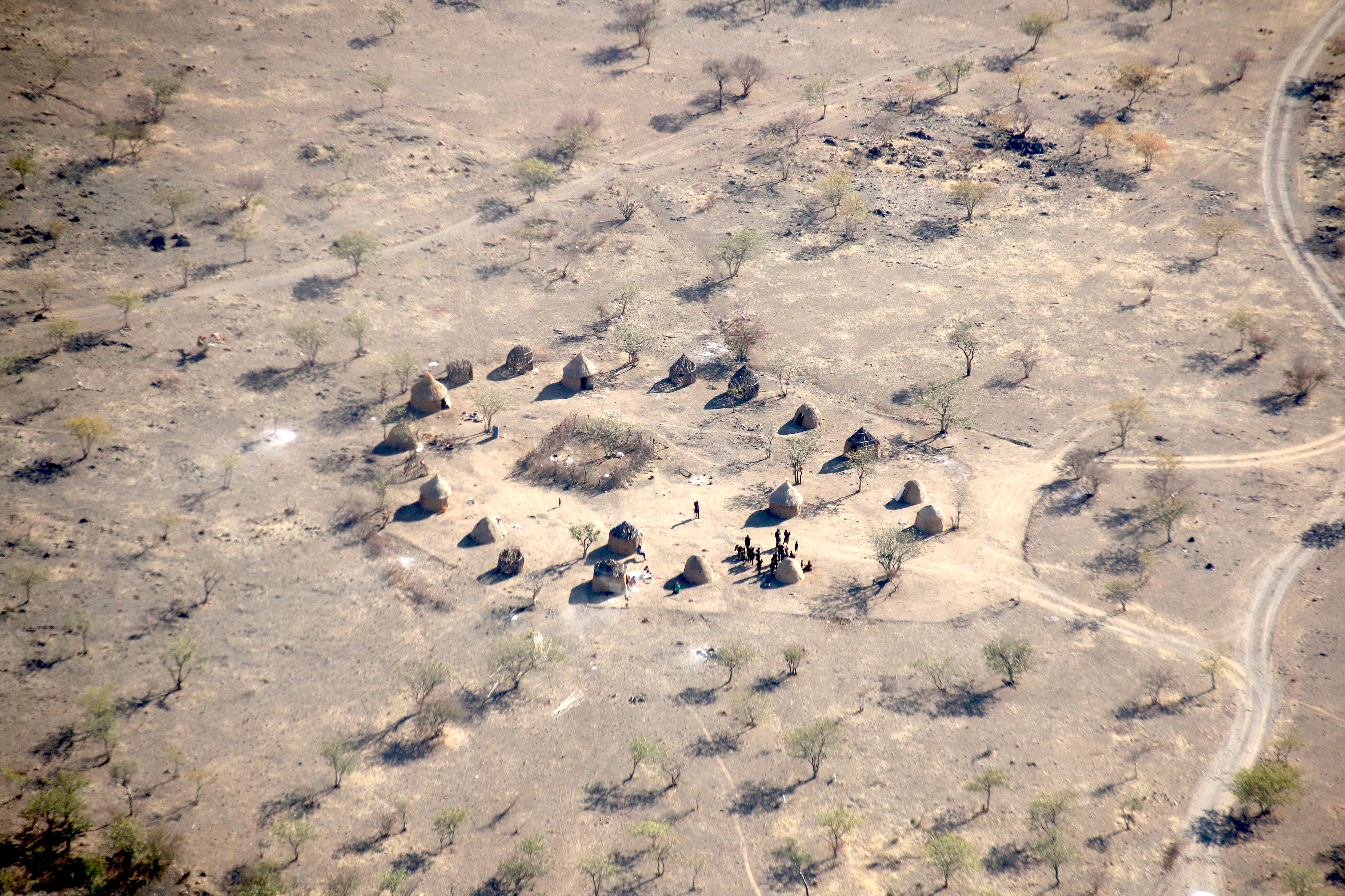 Himba village near Khorixas (2018)